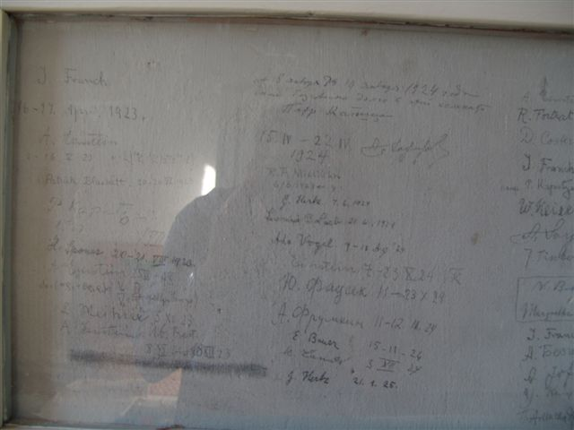 The Ehrenfest House in Leiden. Signatures on Wall 3 Left column: J. French, A. Einstein (2x), Kapitza and others Middle column: R.A. Millikan, A. Einstein, Vogel, E. Bauer, G. Hertz (2x) and others Right column: A. Einstein, D. Coster, I Franck, P. Kapitsa and others (Compare Copy of wall signatures)